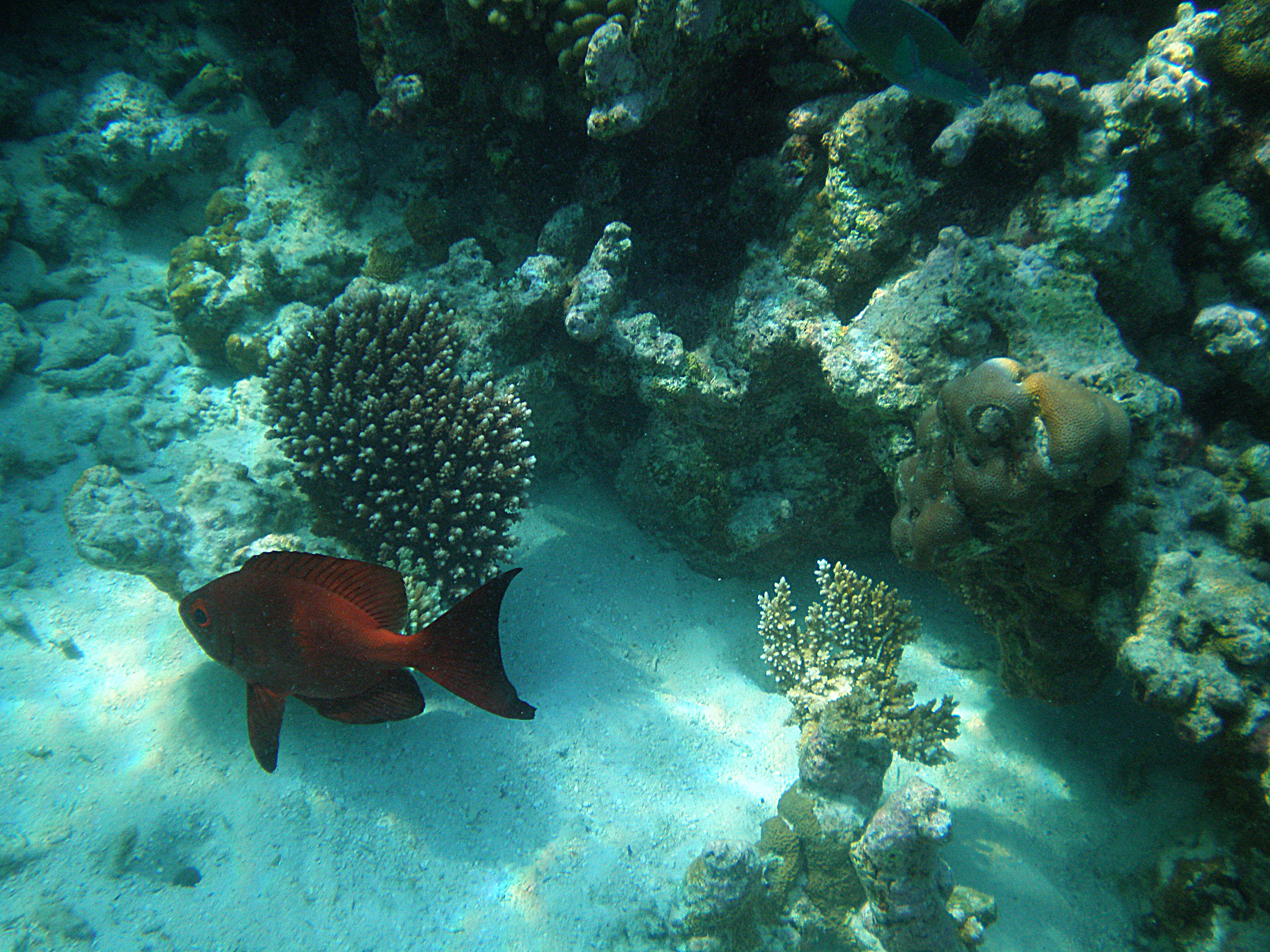 Maldives Bullseye fish (Priacanthus hamrur)